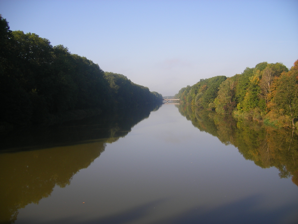 The Danube at Offingen